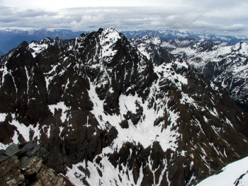 Pizzo Coca (3050 m) Lombardy Italy - view from Redorta